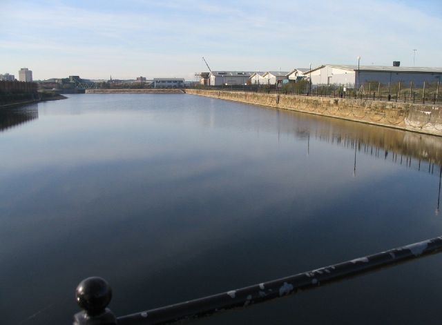 Morpeth Dock, Birkenhead